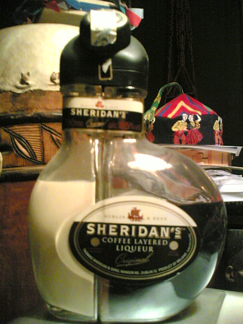 A bottle of Sheridan's